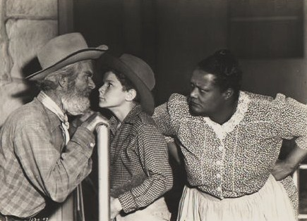 L. to R. : George 'Gabby' Hayes, Lanny Rees & Ruby Dandridge in Home in Oklahoma - publicity still (cropped)